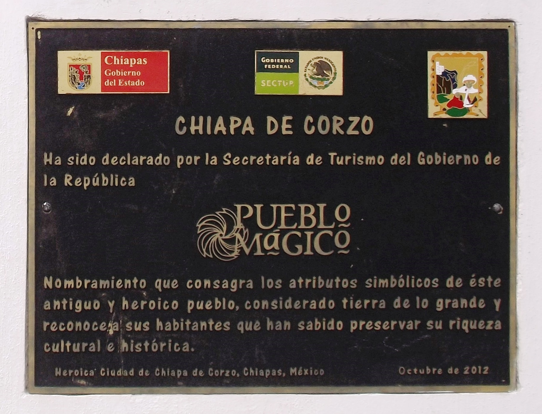 Magic Town Declaration.